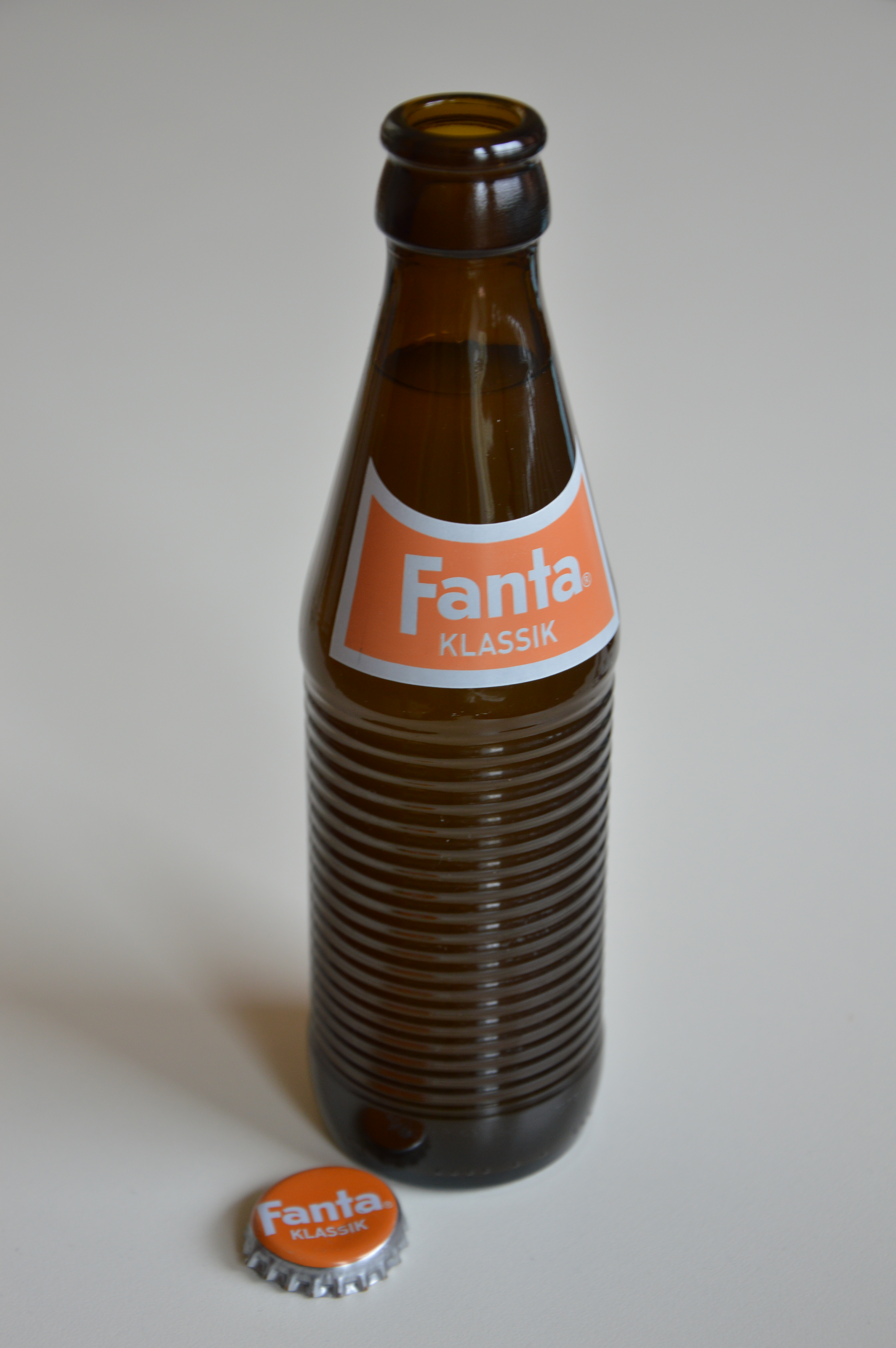 A glass bottle of "Fanta Klassik" produced for Fanta's 75th anniversary. The beverage includes 30% whey. It is substantially less sweet and lighter in colour than regular Fanta.